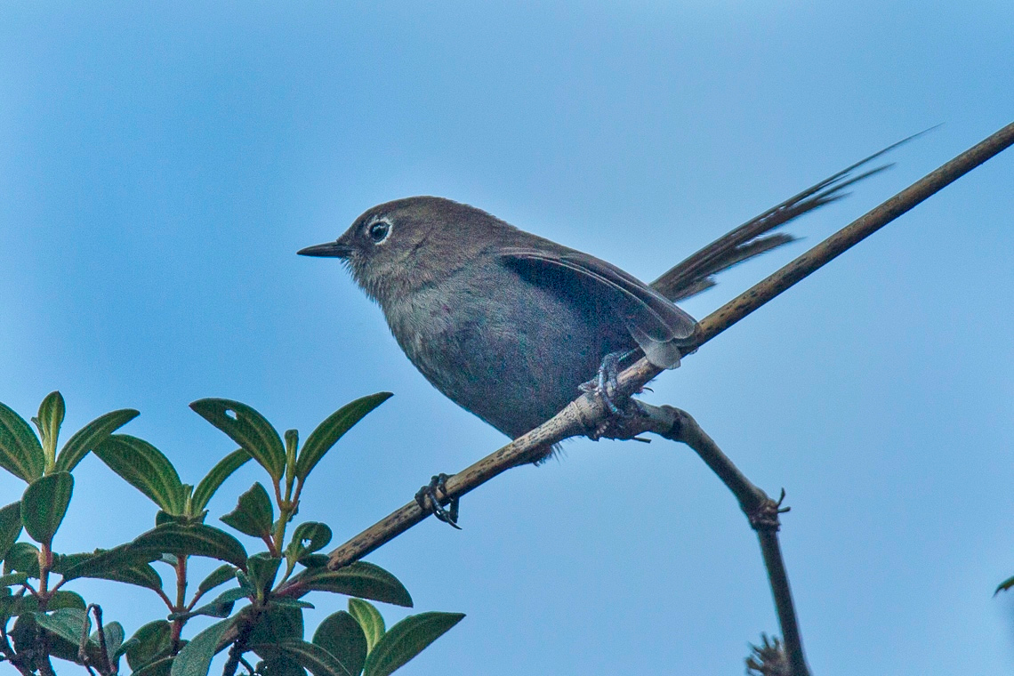 Mouse-colored Thistletail (Asthenes griseomurina) - South Ecuador_S4E2287